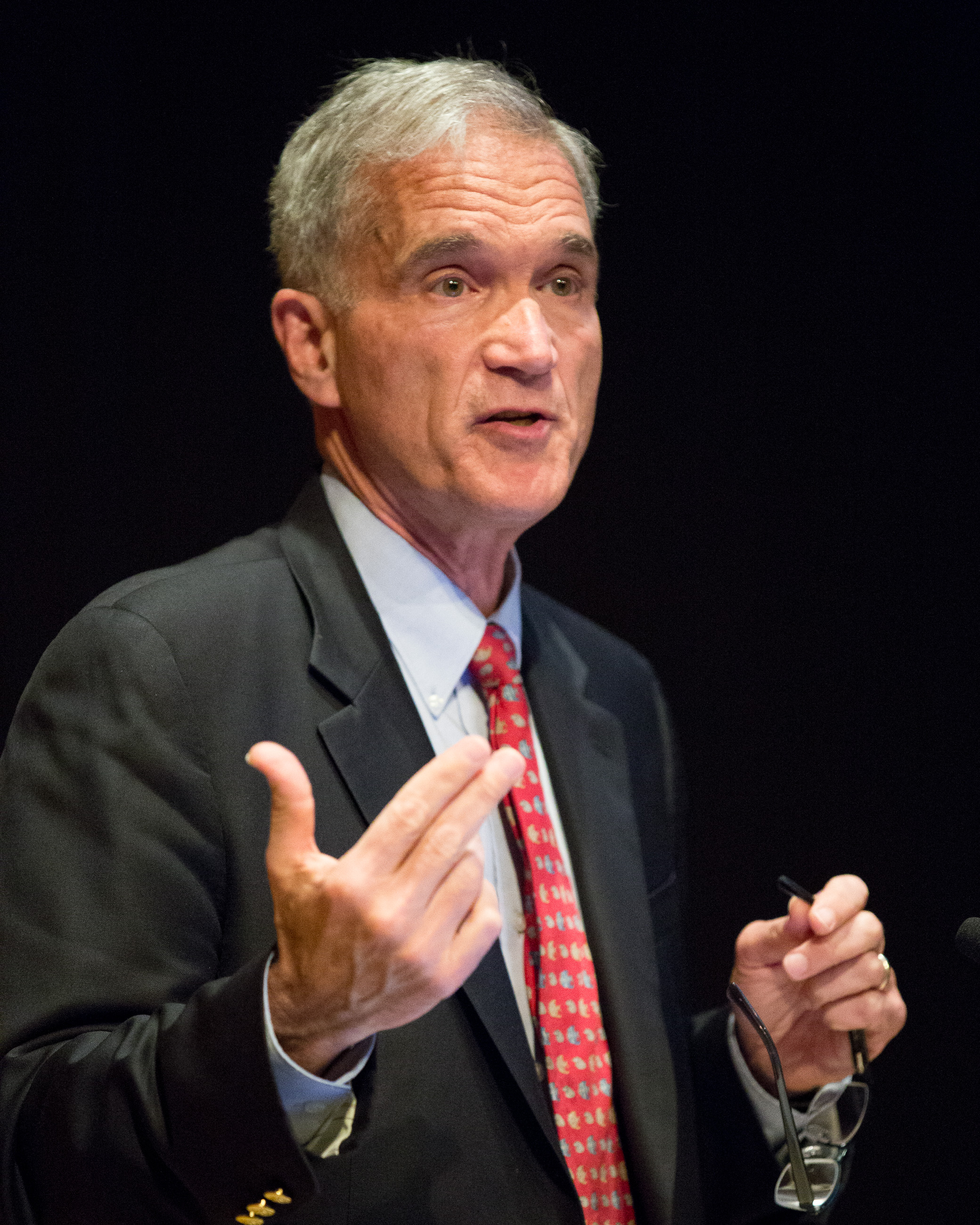 David I. Kertzer, Pulitzer-prize winning historian